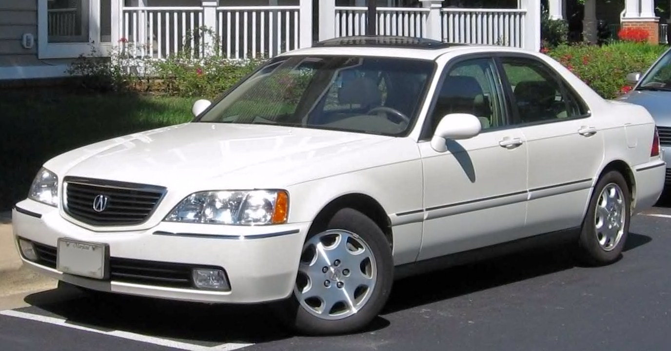 1999-2004 Acura RL photographed in USA.